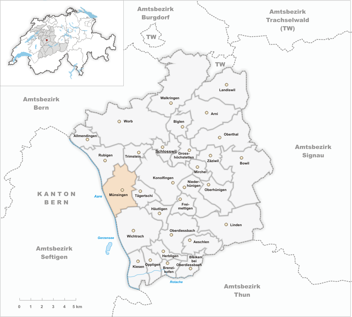 Municipality Münsingen